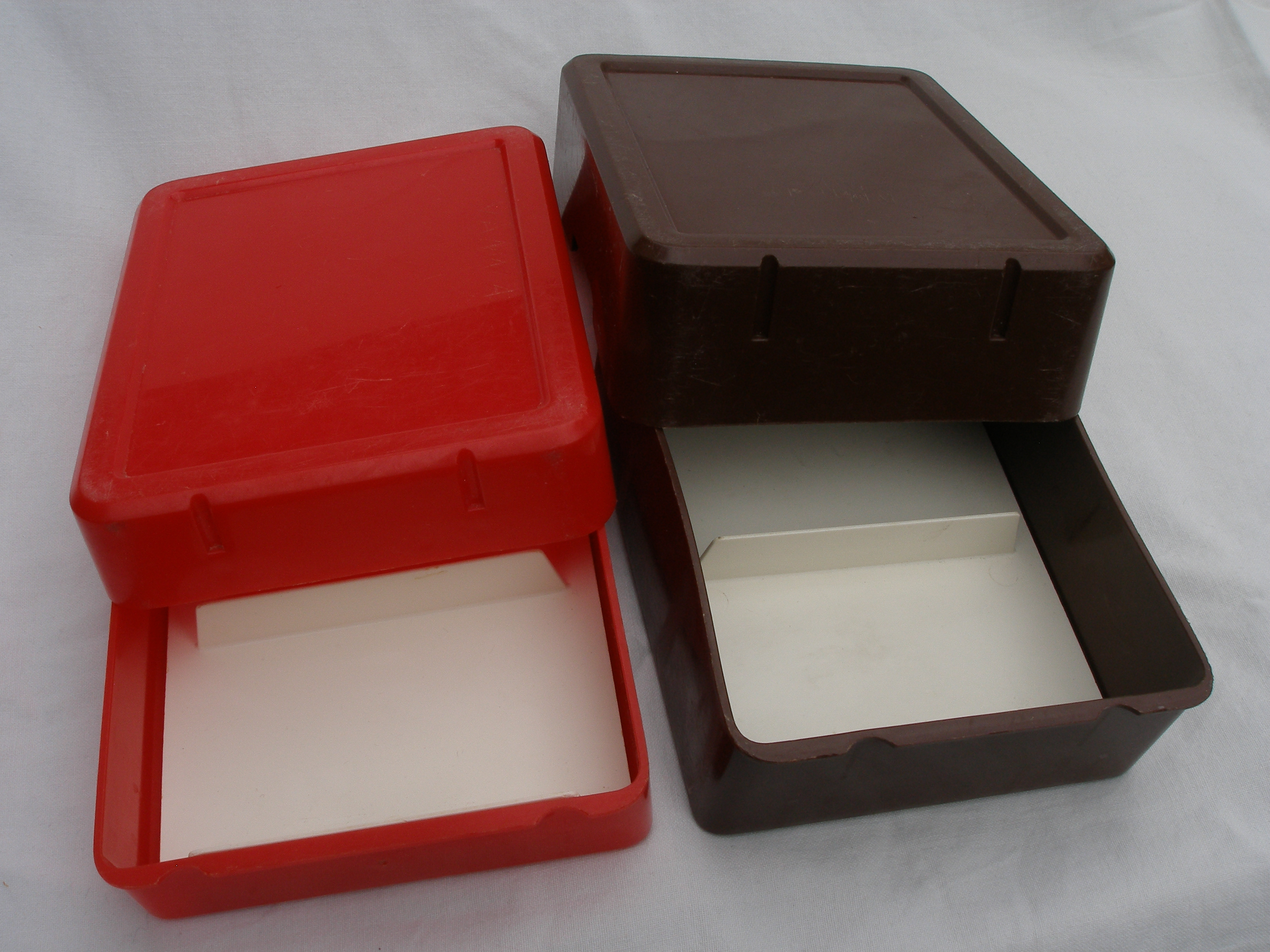 Lunch box produced in Denmark by Rosti (model 4116) and used in the 1990ies